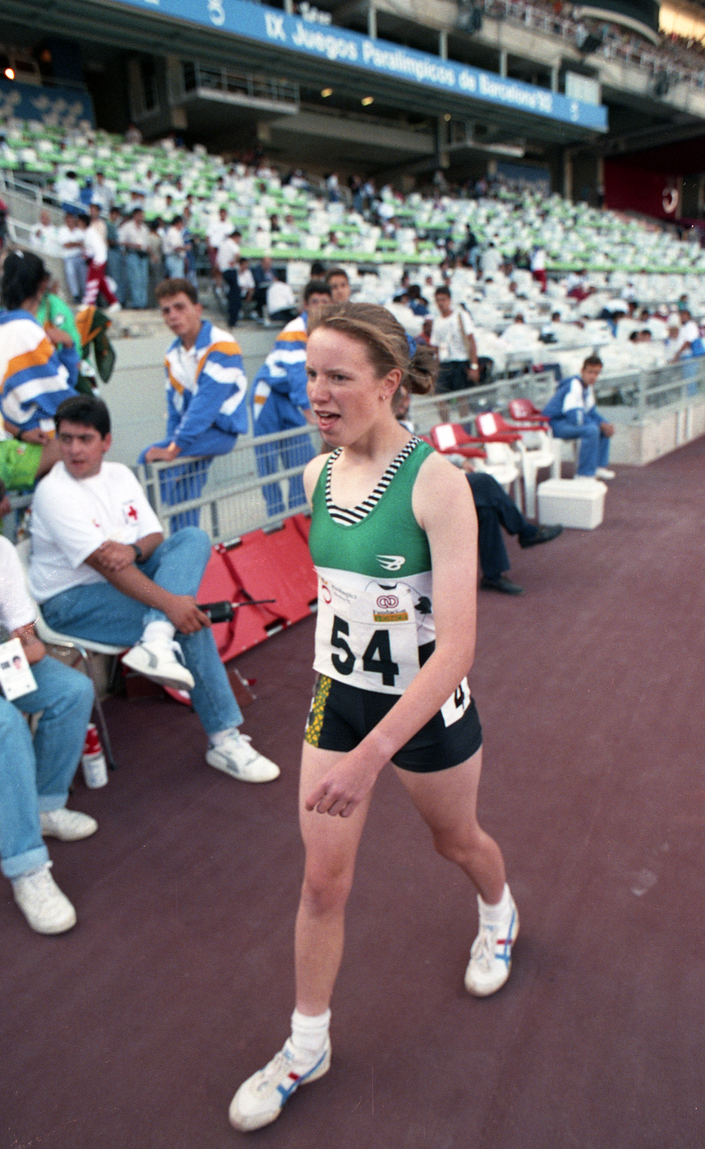 Alison Quinn, Australian athletics gold medalist, at the Barcelona 1992 Paralympic Games.